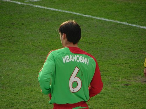 Branislav Ivanović. 2007 Russian cup semifinal (FC Lokomotiv Moscow v.s. FC Spartak Moscow)